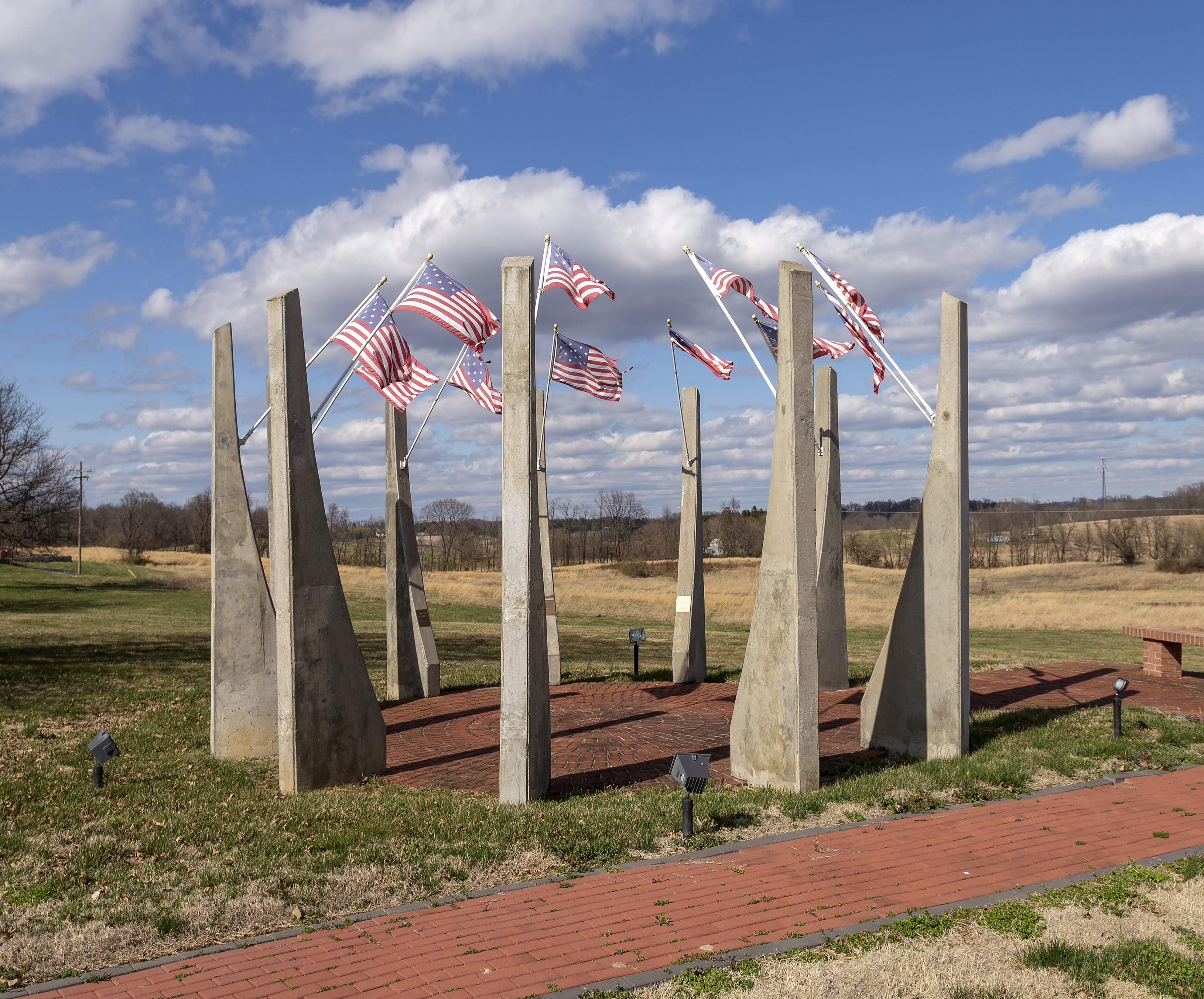 The memorial to the eight Harpers Ferry Job Corps trainees who died in the 1996 Silver Spring train collision, at the Harpers Ferry Job Corps center, West Virginia, USA